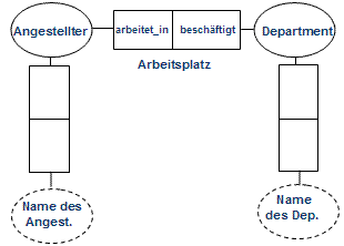 Object role modeling example